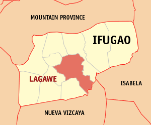 Map of Ifugao showing the location of Lagawe